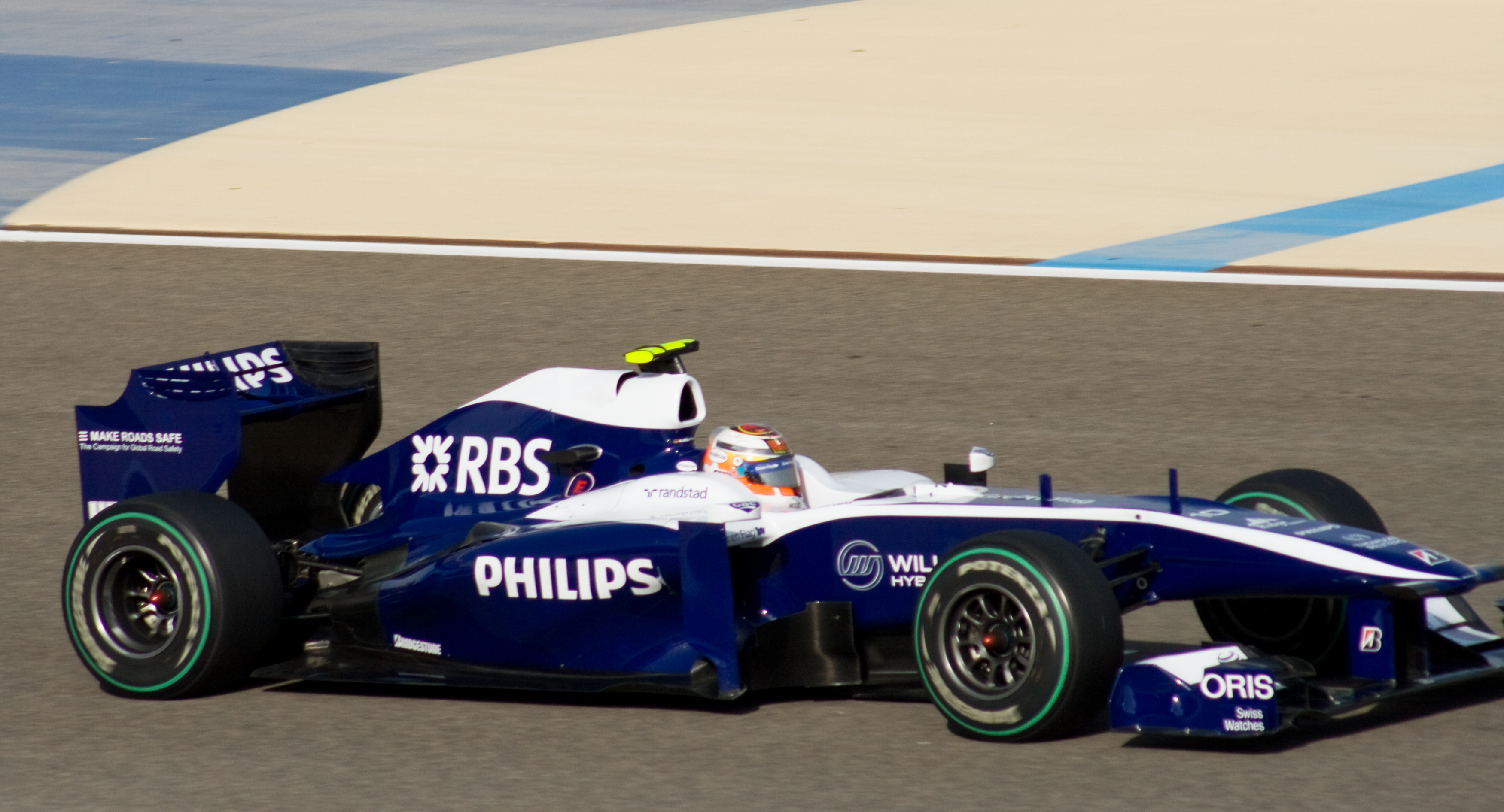 Nico Hülkenberg driving for WilliamsF1 at the 2010 Bahrain Grand Prix.